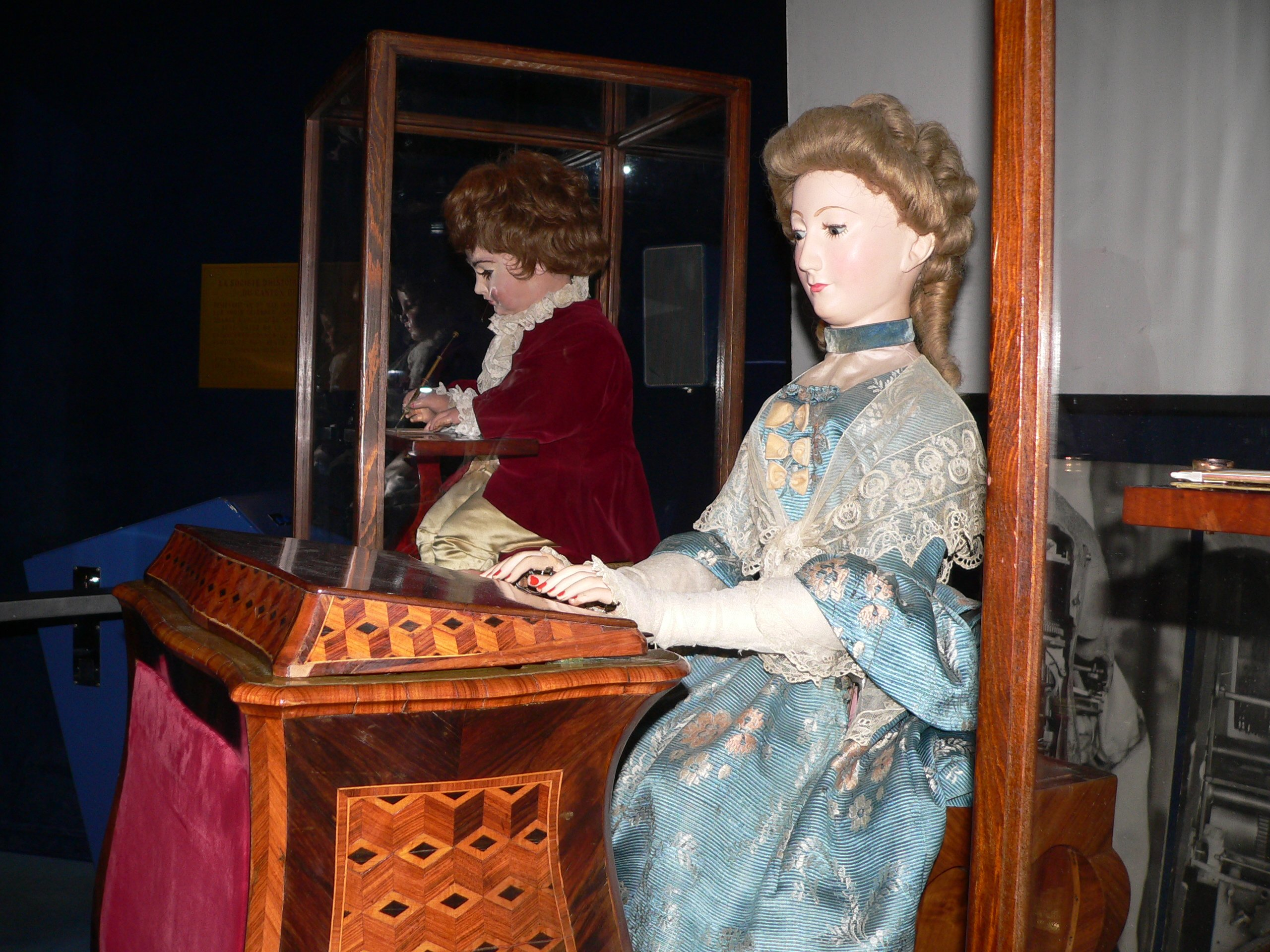 Jaquet-Droz automata, mus�e d'Art et d'Histoire de Neuch�tel